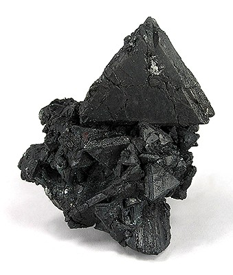 Tennantite Locality: Tsumeb, Otjikoto (Oshikoto) Region, Namibia (Locality at ) Size: small cabinet, 9 x 7 x 6 cm TENNANTITE This is a tower of 3-dimensional, jet-black crystals to 4.5 cm. The piece is complete all around, 360 degrees, like a pyramid! The wet-looking patina, in contrast to the usual dull gray we see on Tsumeb tennantites, is striking and different and really makes the piece leap out as a cut above other Tsumeb examples of this species. Its a world class example of the mineral, from one of the premier localities. This collection was always known for its breadth of specimens but also noted within the community for two very fine pieces of extremely high display quality that were sold to Ed out of the personal collection of Miriam and Julius Zweibel: a smashing wulfenite specimen with metallic orange lustre (now in the Marshall and Charlotte Sussman collection); and this fantastic tower of stereotypically sharp crystals. Ed retired and moved away from Dallas in 1984 or so, taking these with him. The piece hasn't been seen outside of his homne since then, and it shocked me when I first saw it.